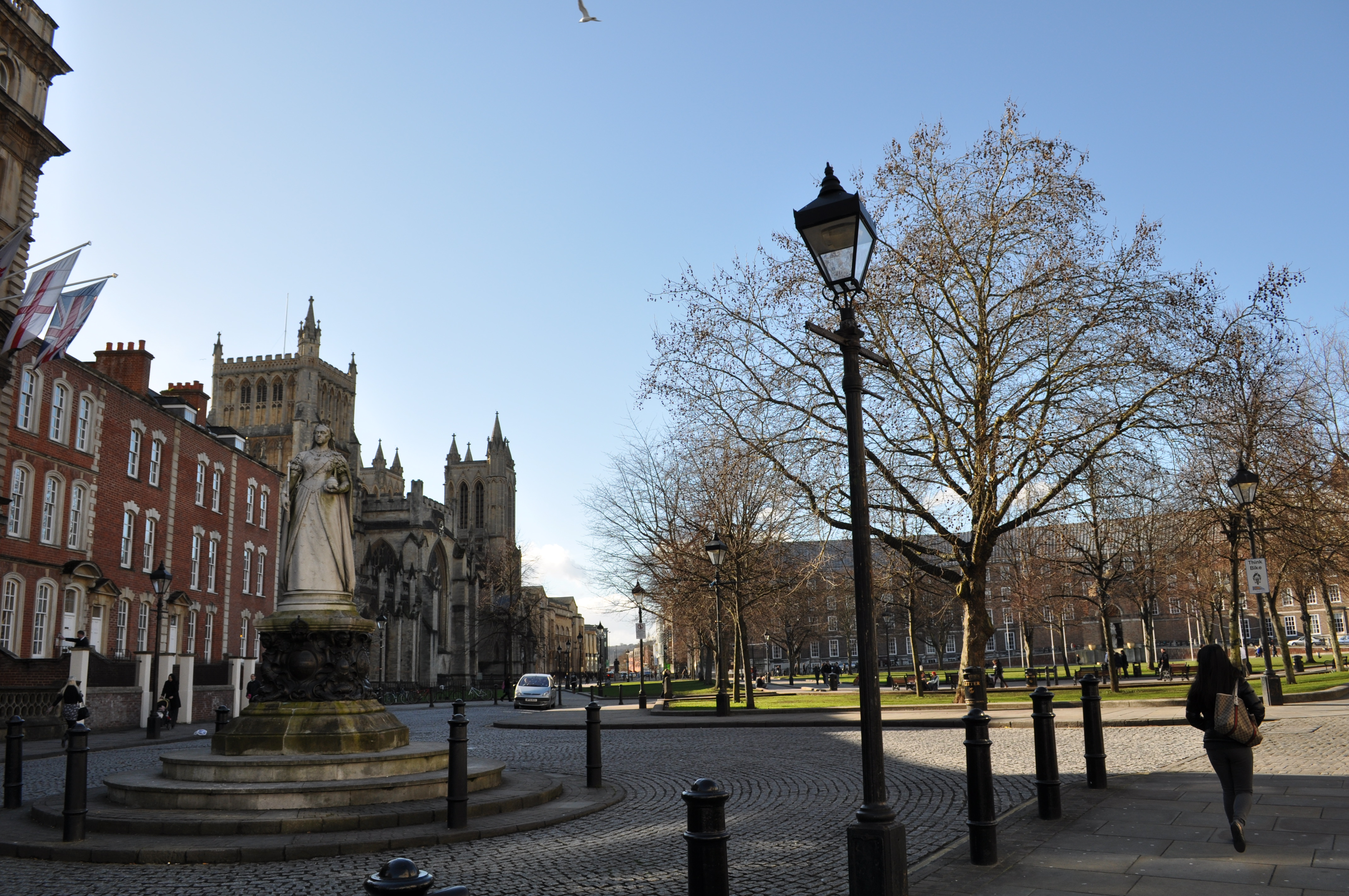 View of College Green, Bristol, where the chapel of St. Jordan stood in the 14th, 15th, and 16th centuries and where Jordan's relics were legendarily entombed. Taken from the apex of the Green L-R: Queen Victoria statue, Bristol Cathedral, Council House